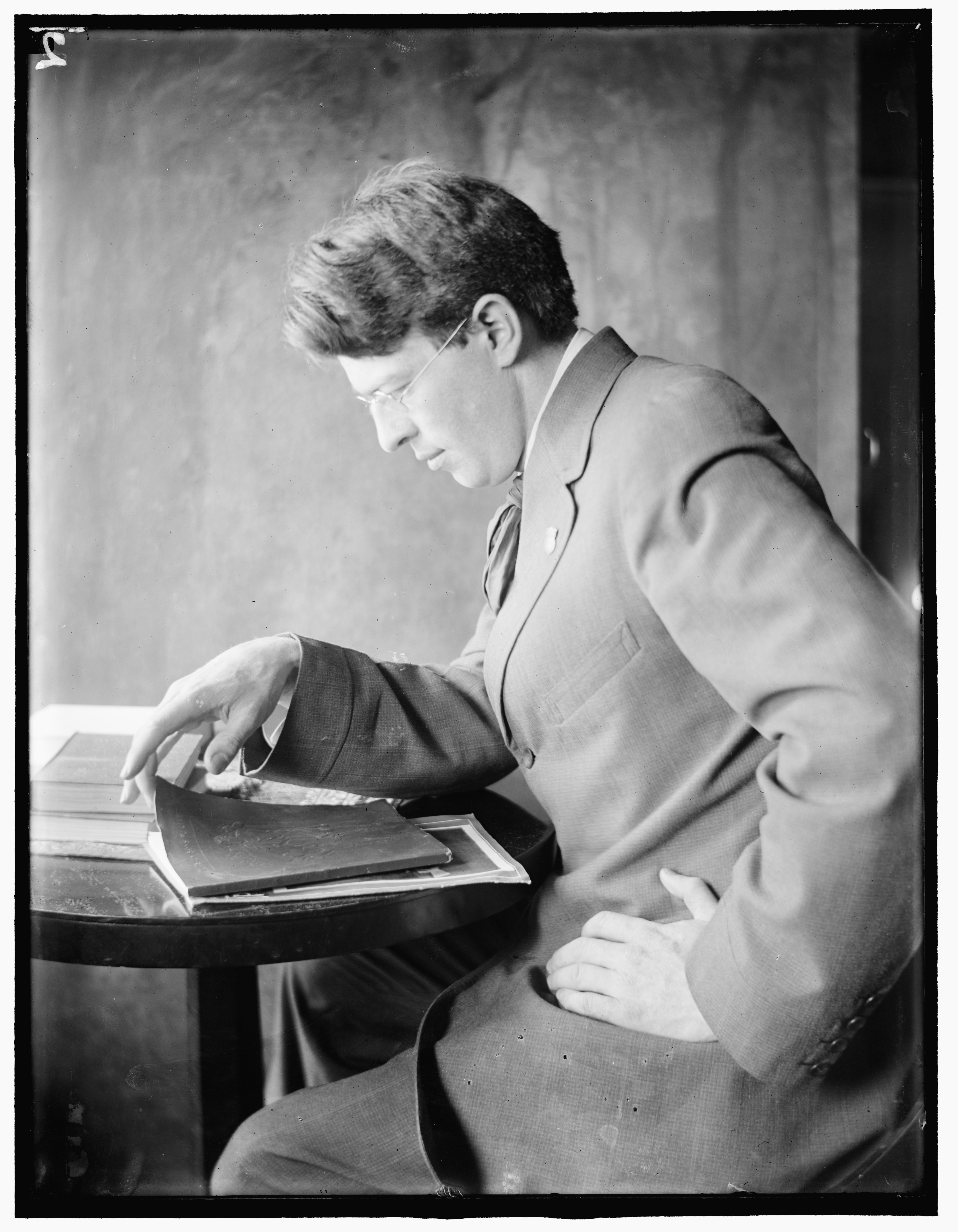 Black-and-white photographic portrait of Clarence White, Sr., by the American photographer Gertrude Käsebier.